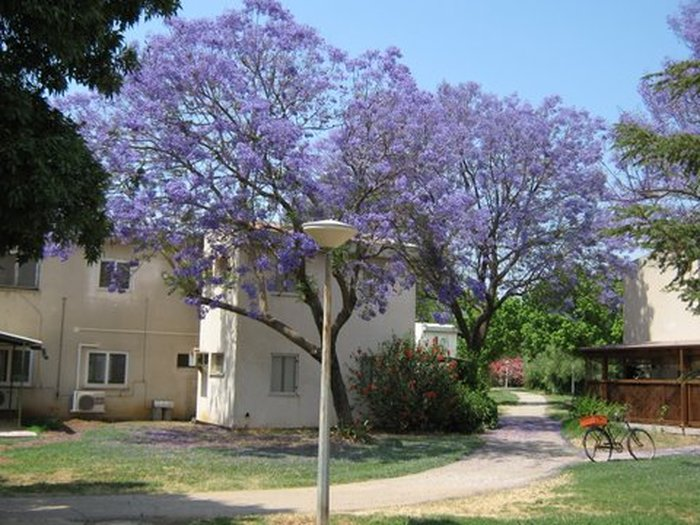 Jacaranda trees